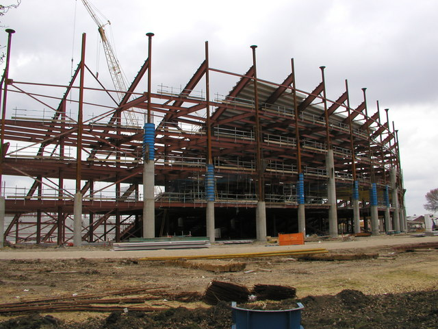 The KC Stadium under construction. This is the view from West Park during the construction of the 'KC' (Kingston Communications) Stadium. The ground is now well-established and is home to both Hull City Football and Hull Rugby League Clubs.